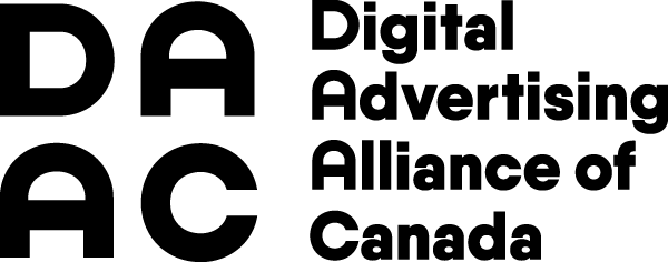 DAAC logo 2019